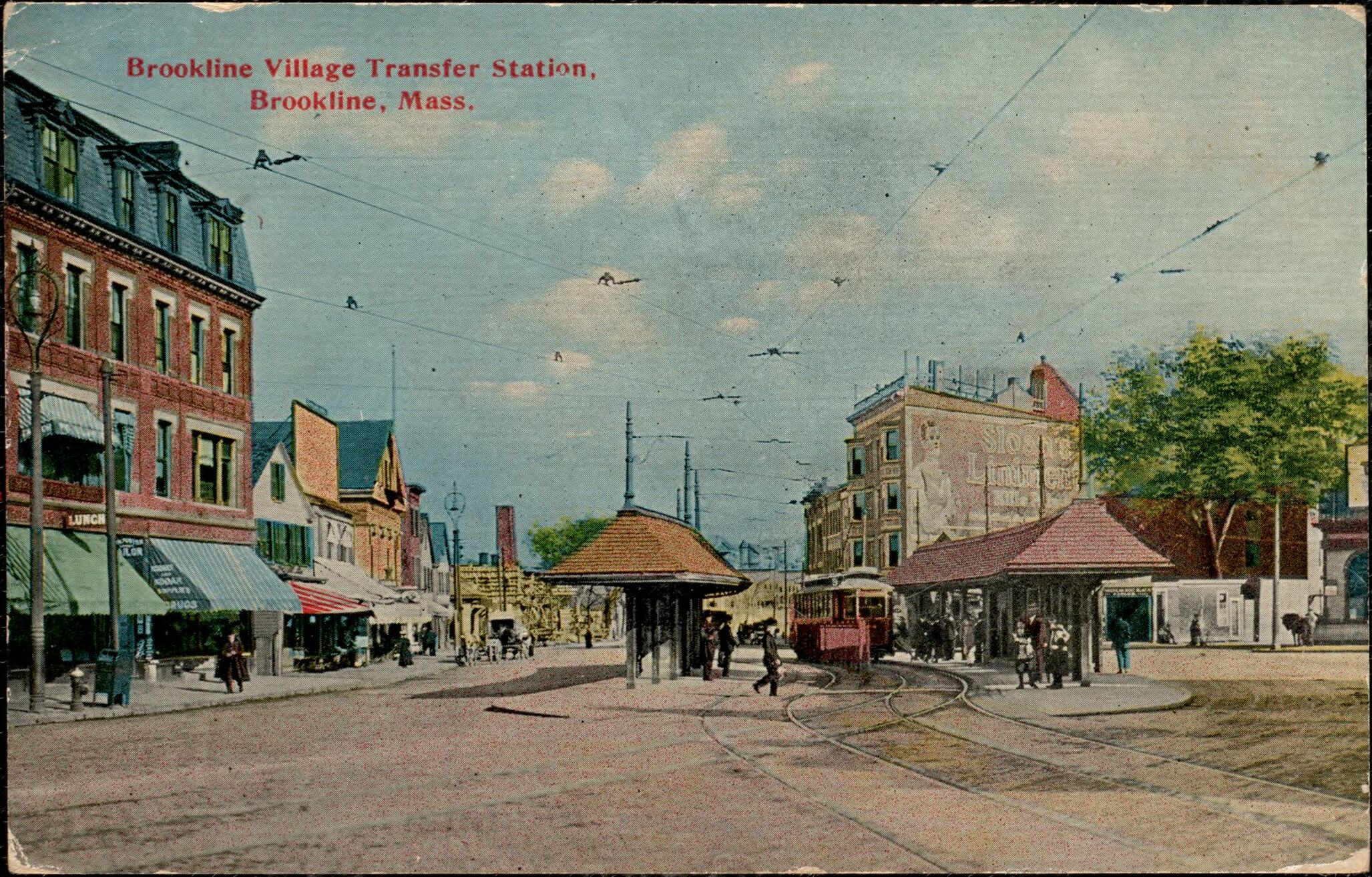 A postcard of the new transfer station at Brookline Village, postmarked 1913